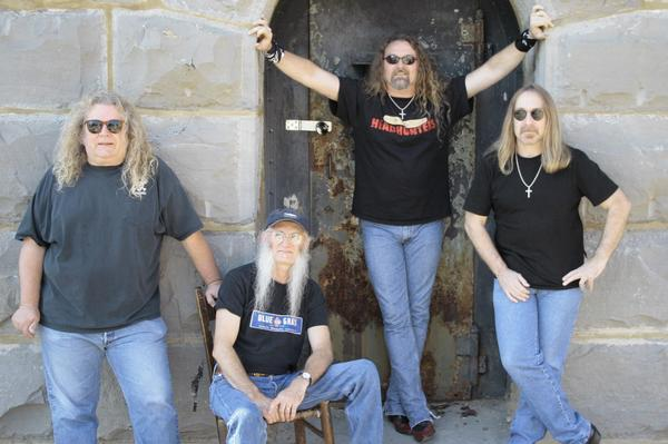 The Kentucky Headhunters, American country rock/southern rock band, photographed by Brad U. Wheeler